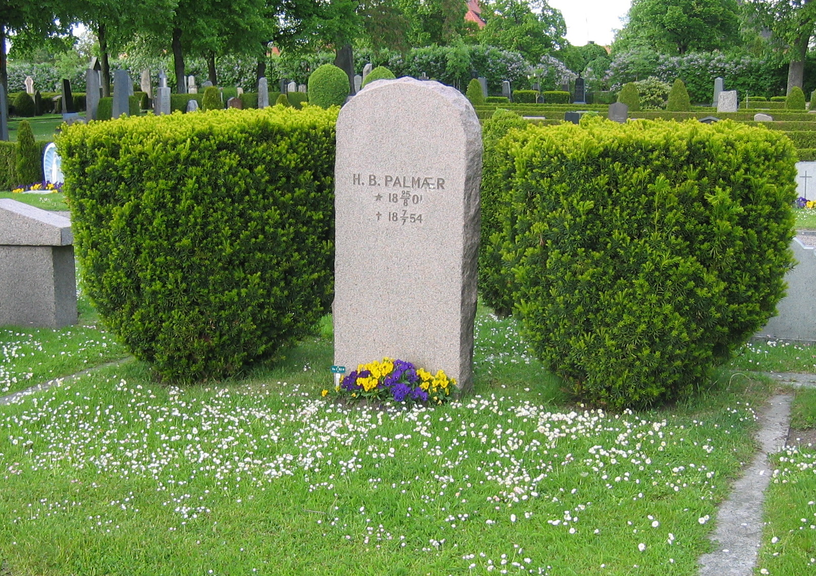 Grave of Henrik Bernhard Palmær, Swedish journalist, in Linköping.